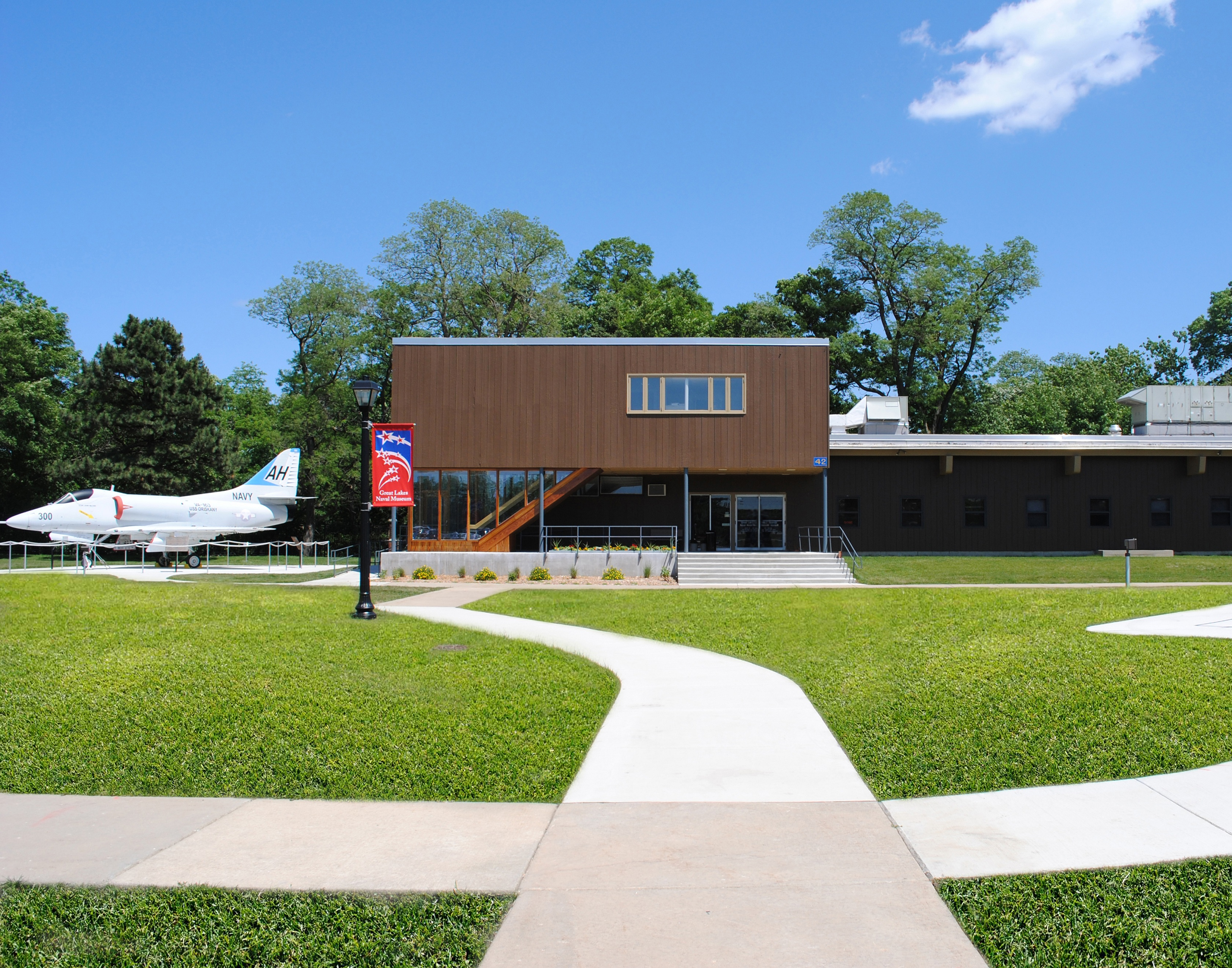 131108-N-ZZ999-001 GREAT LAKES, Ill. (Nov. 8, 2013) An undated file photograph of the Great Lakes Naval Museum. The Great Lakes Naval Museum's mission is to select, collect, preserve, and interpret the history of the United States Navy with particular emphasis on the Navy's only boot camp at Naval Station Great Lakes, Illinois. The museum is located at the Great Lakes Naval Station by the Main Gate.